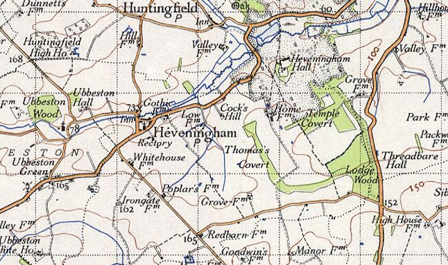 Map of Heveningham and surrounding area